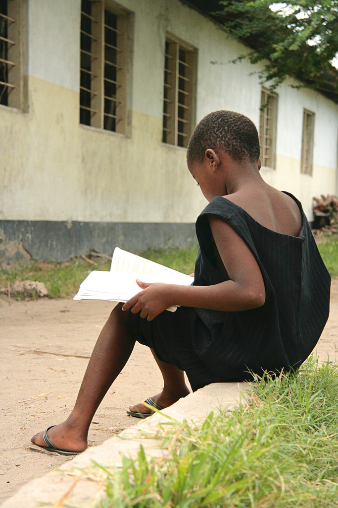 Child in Tanzania reading a book. Original caption: an African child studying after school. This Photo was taken during the Virus Free Generation Hip Hop Tour.